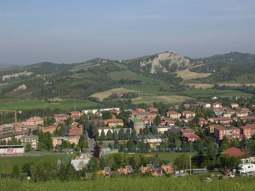 A panorama of Pianoro.